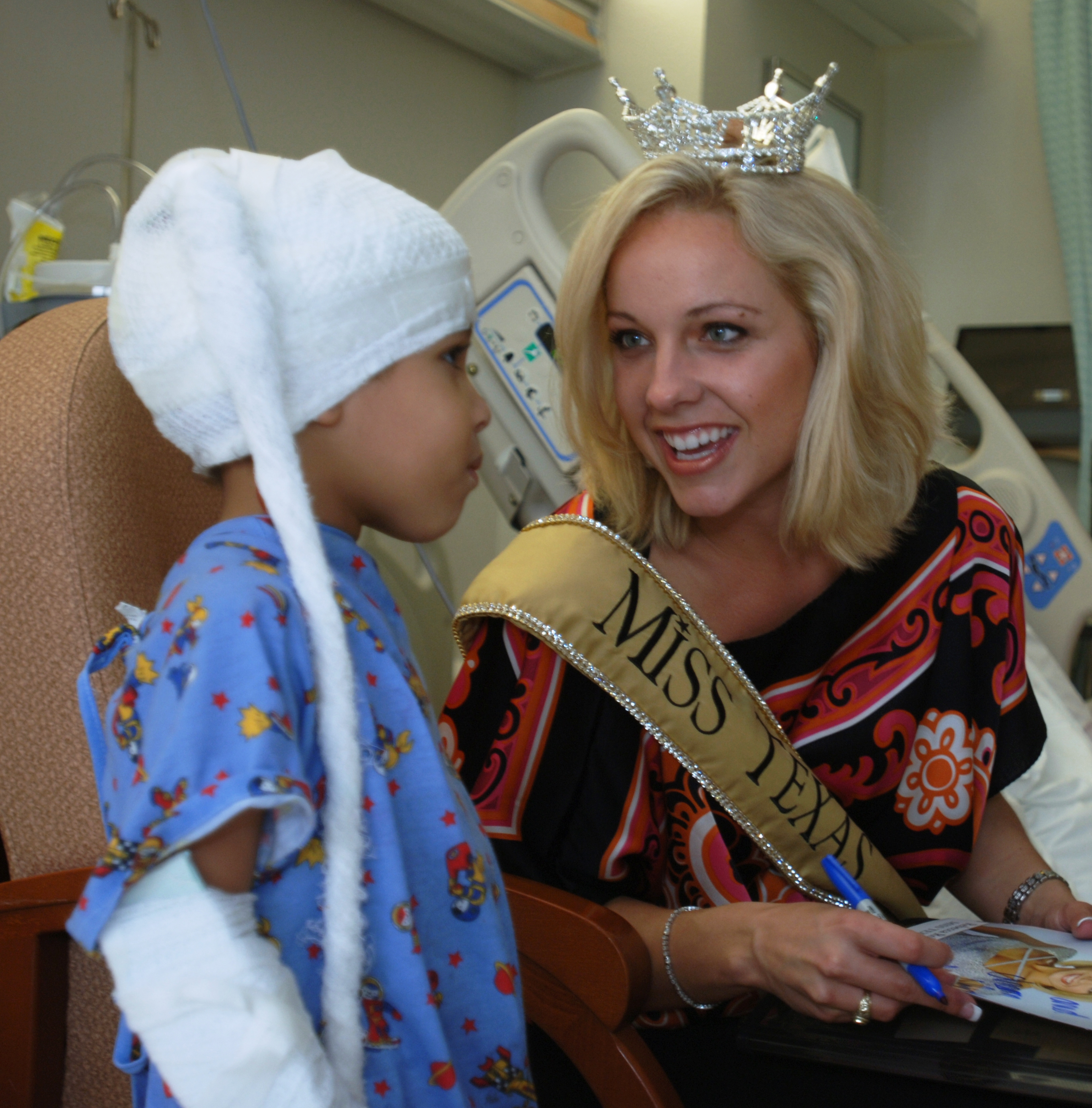 Rebecca Robinson, Miss Texas 2008, visits with a young patient on the pediatric ward at Wilford Hall Medical Center, Lackland Air Force Base, Texas, April 24. The 24-year-old graduate of Texas A&M University with a degree in Spanish visited several areas of the hospital along with Alanna Sarabia, Miss San Antonio 2009. (U.S. Air Force photo/Senior Airman Josie Kemp)